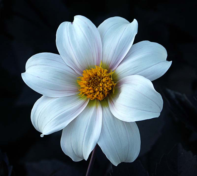 Single 'Twyning's After Eight', Mark Twyning (UK 2004)